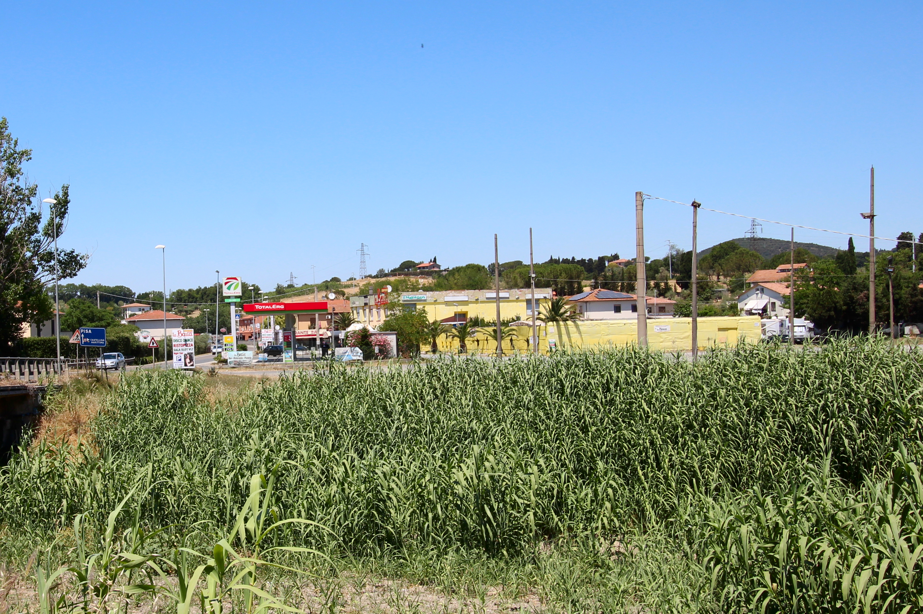 Le Badie, hamlet of Castellina Marittima, Province of Pisa, Tuscany, Italy